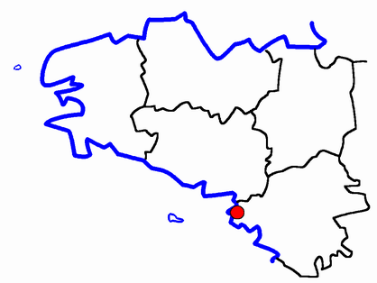 Description: Map for localisazion of cantons of Pays-de-Loire, region in France Source: made by Hervé Tigier in april 2005 from another large map (published in 1990)